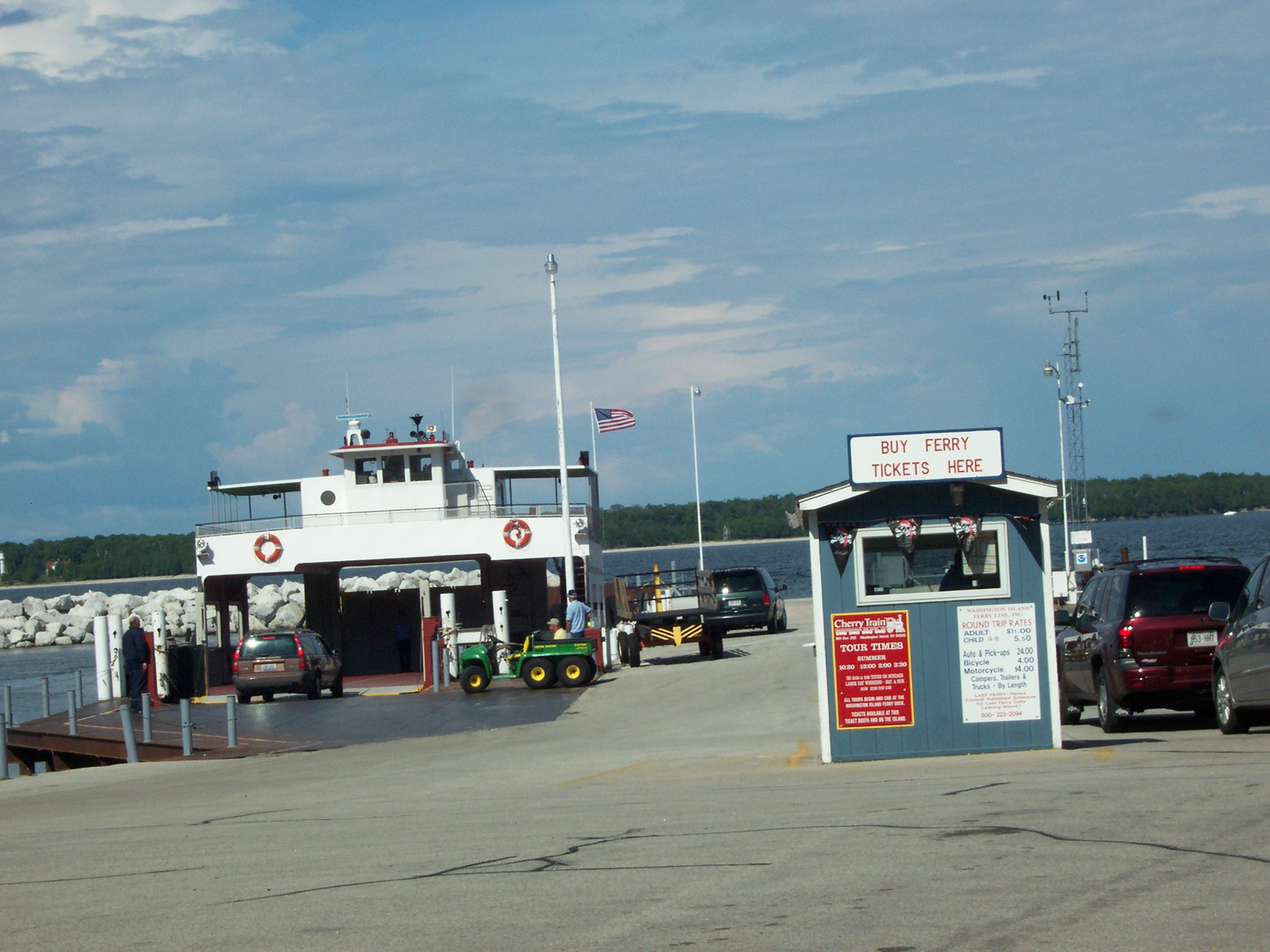 Looking north at the Cherry Train for the Washington Island Ferry at the northern terminus of Wisconsin Highway 42 near Gills Rock, Wisconsin. The ship is named the Robert Noble.